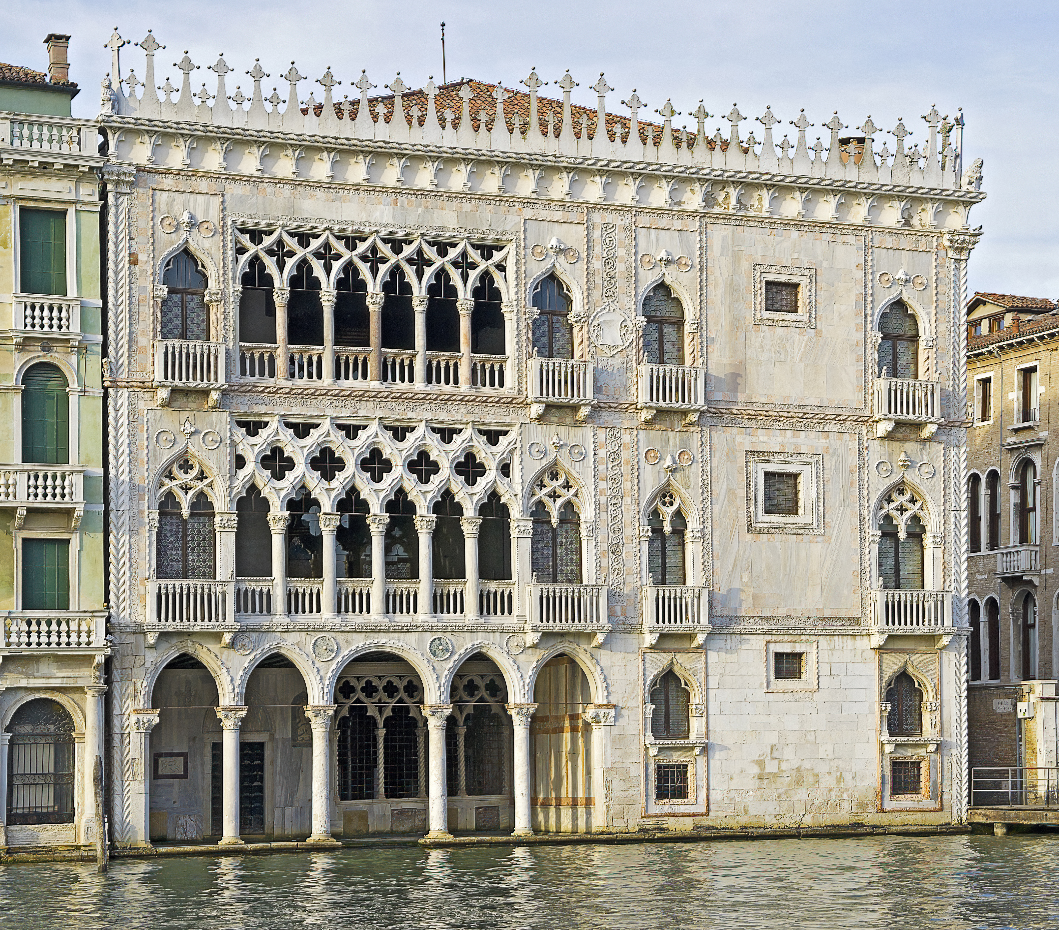 Ca' d'Oro, Venice facade by Bartolomeo Bon.